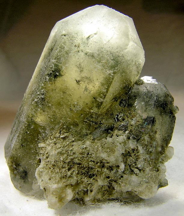 Hanksite Locality: Searles Lake, San Bernardino County, California, USA (Locality at ) A fine example of an evaporite mineral that is uncommon on the market, dug with great labor from the clay of ancient lake beds. This is a perfect, doubly-terminated hexagonal crystal, attached to two smaller, ALSO doubly-terminated crystals. In the light, the large crystal is actually quite transparent! 5.9 x 5.1 x 4.0 cm